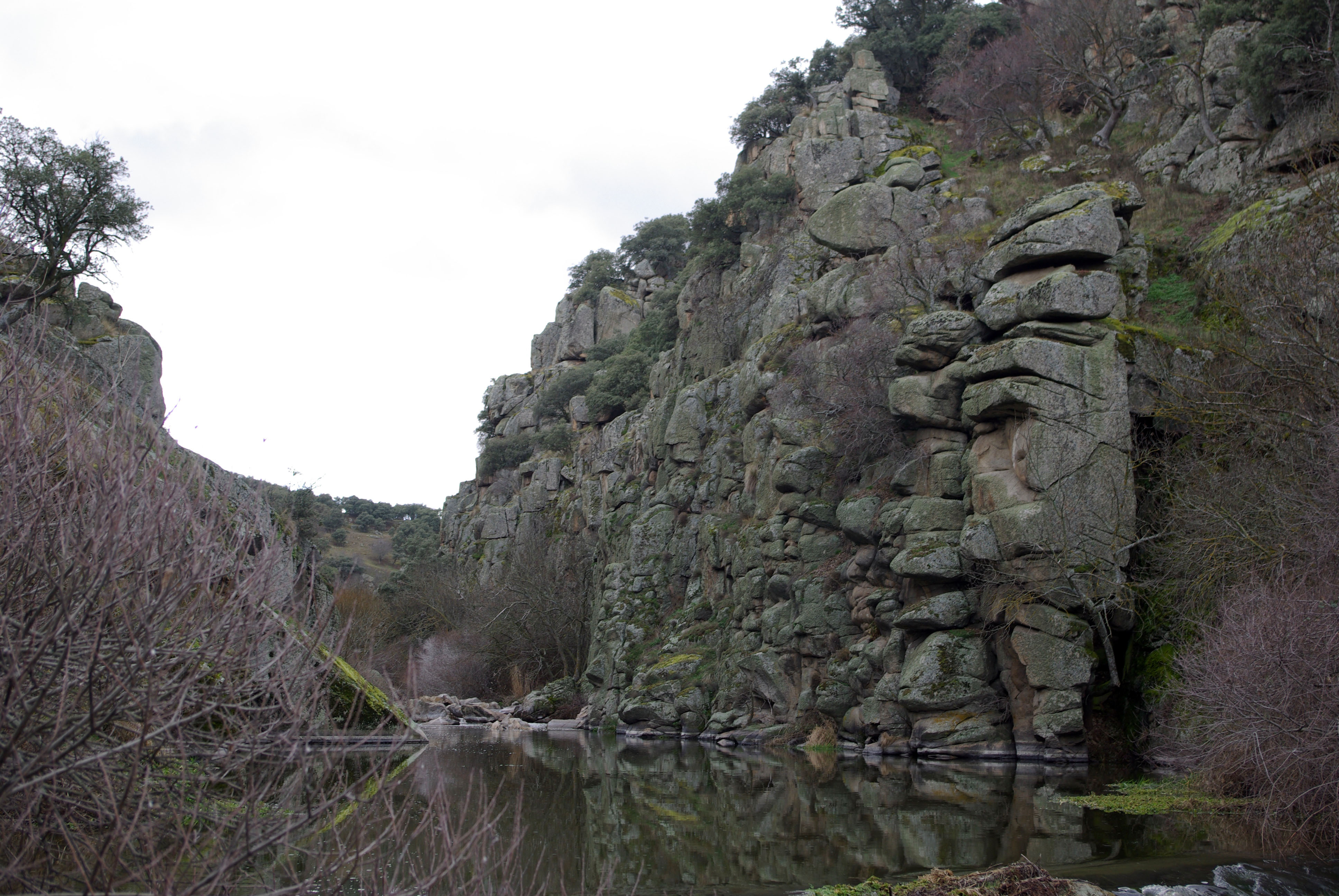 River Adaja near Mingorría (Ávila, Spain)